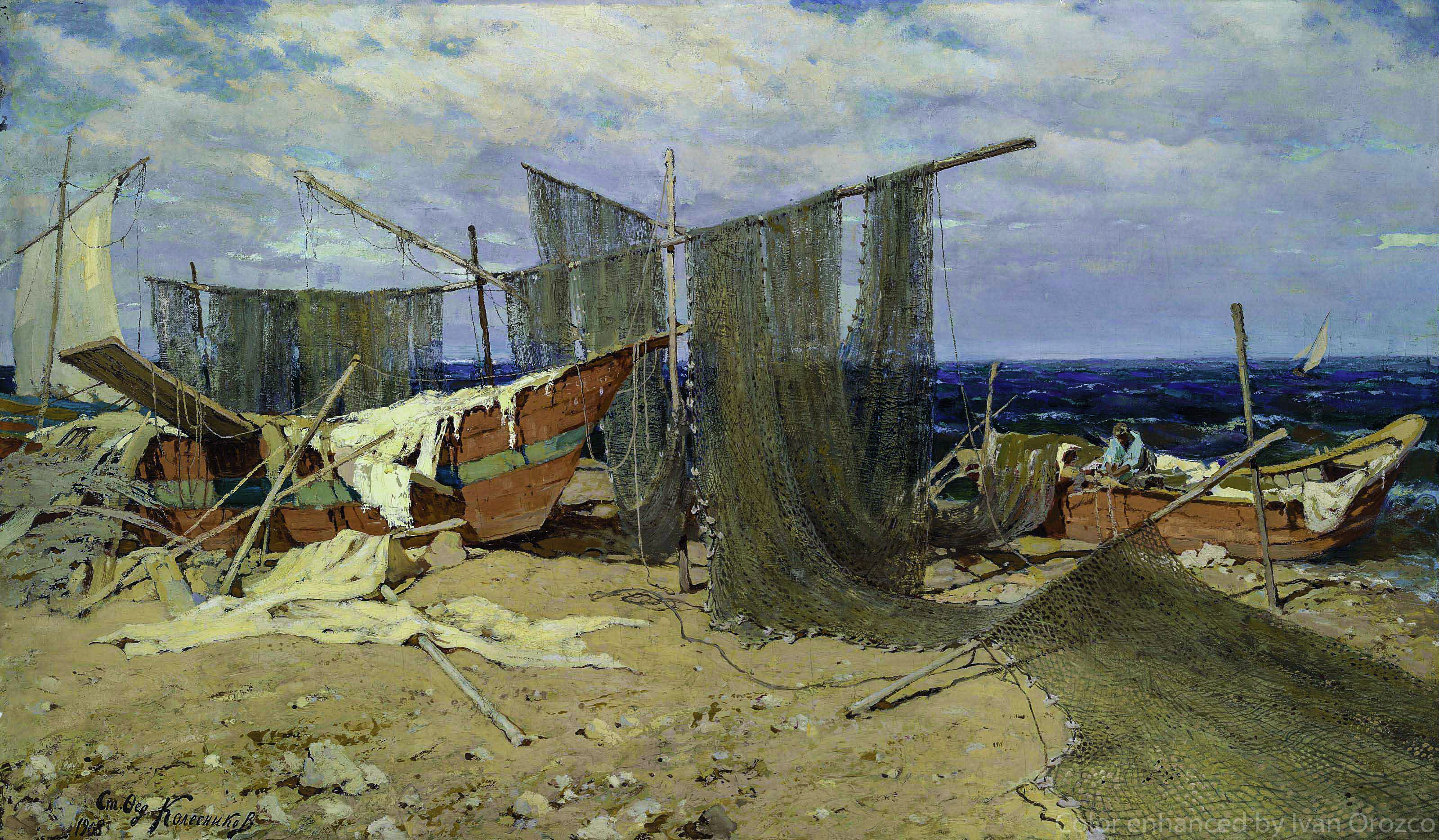 All are original colors from the paint just enhanced